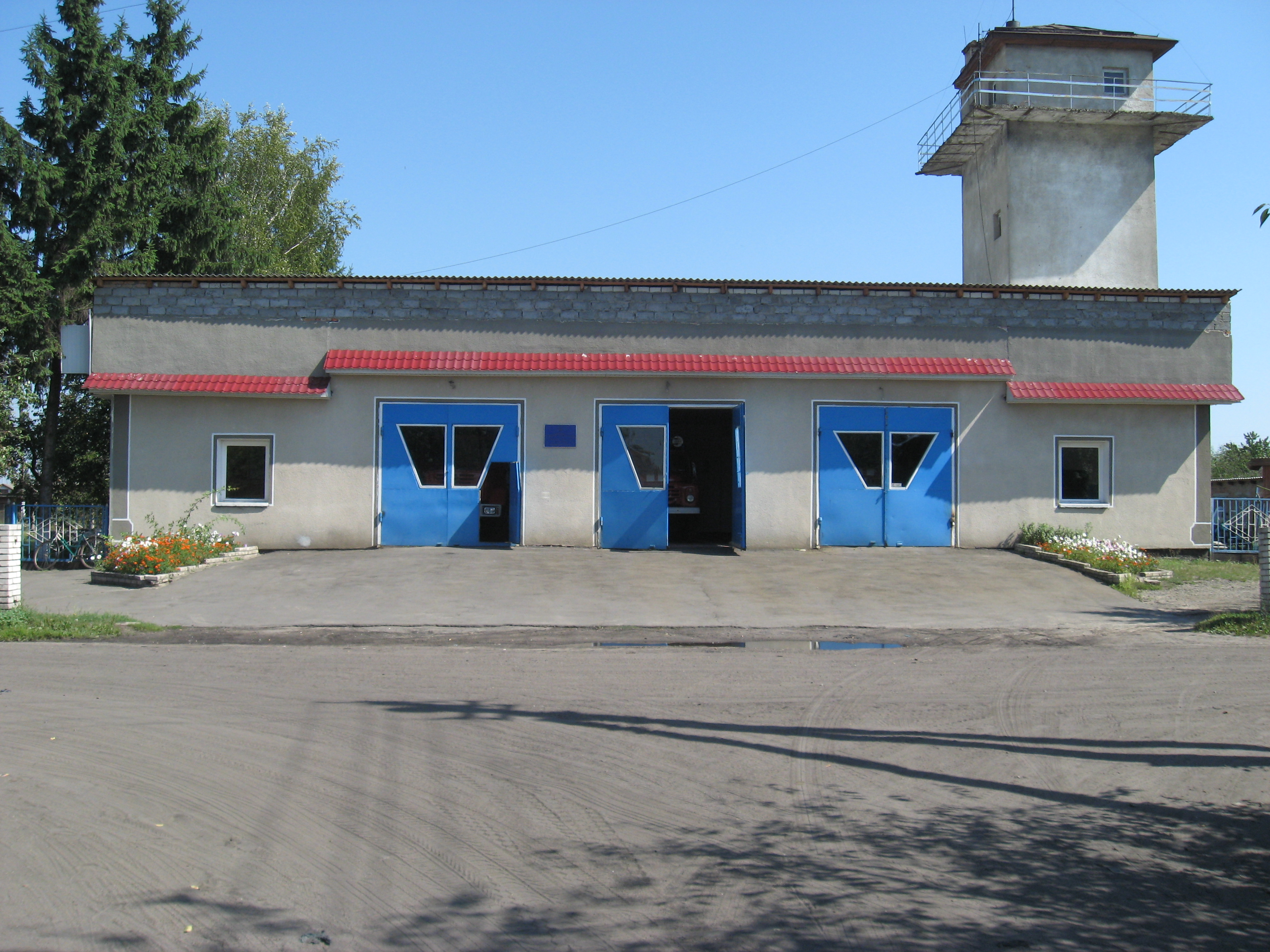 Fire department of Shatsk, Volyn Oblast, Ukraine